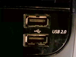 Snapshot of a Front USB port